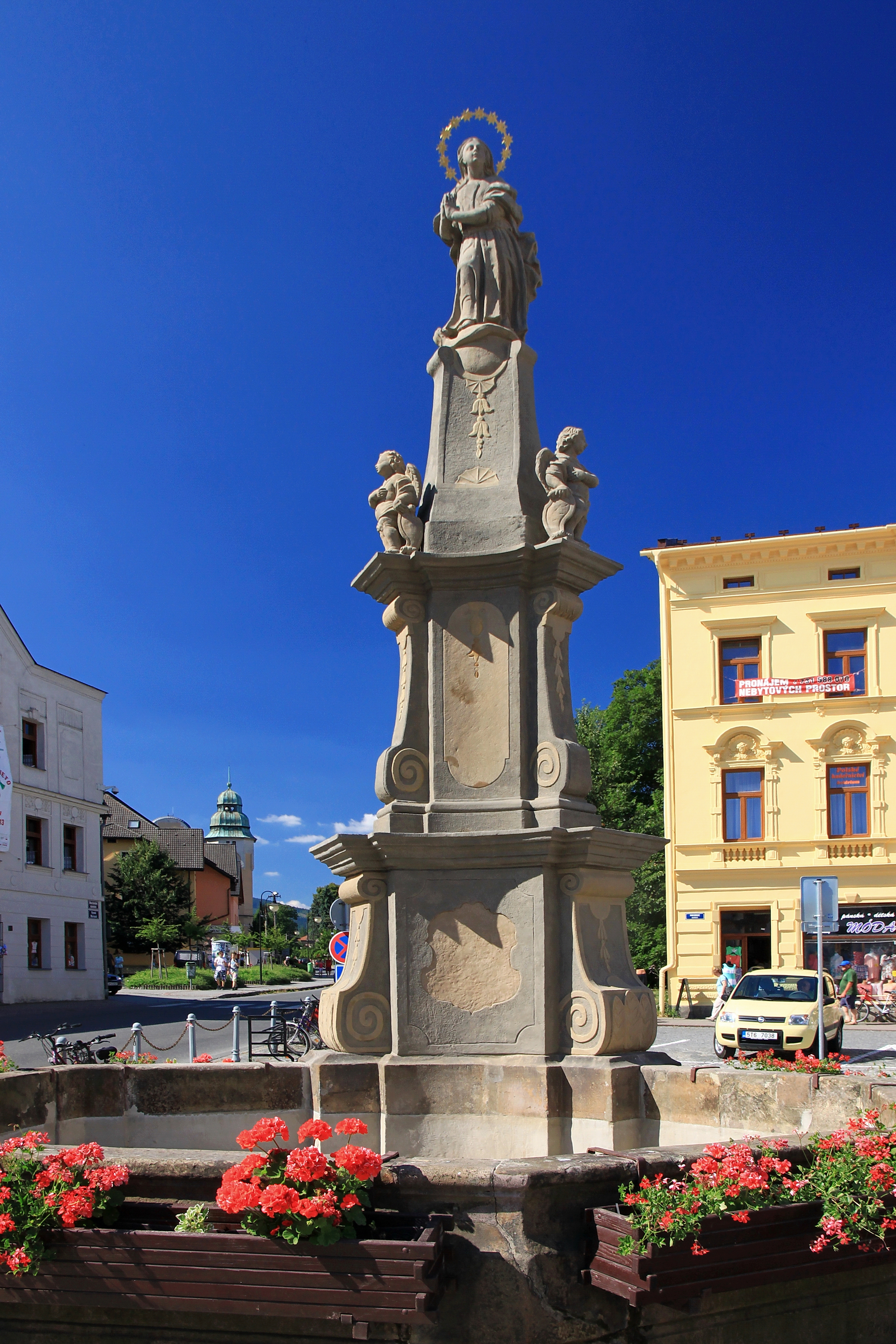 Fountain with statue of the Immaculata (Blessed Virgin Mary), Mariánské square. Jablunkov, Moravian-Silesian Region, Czech Republic.